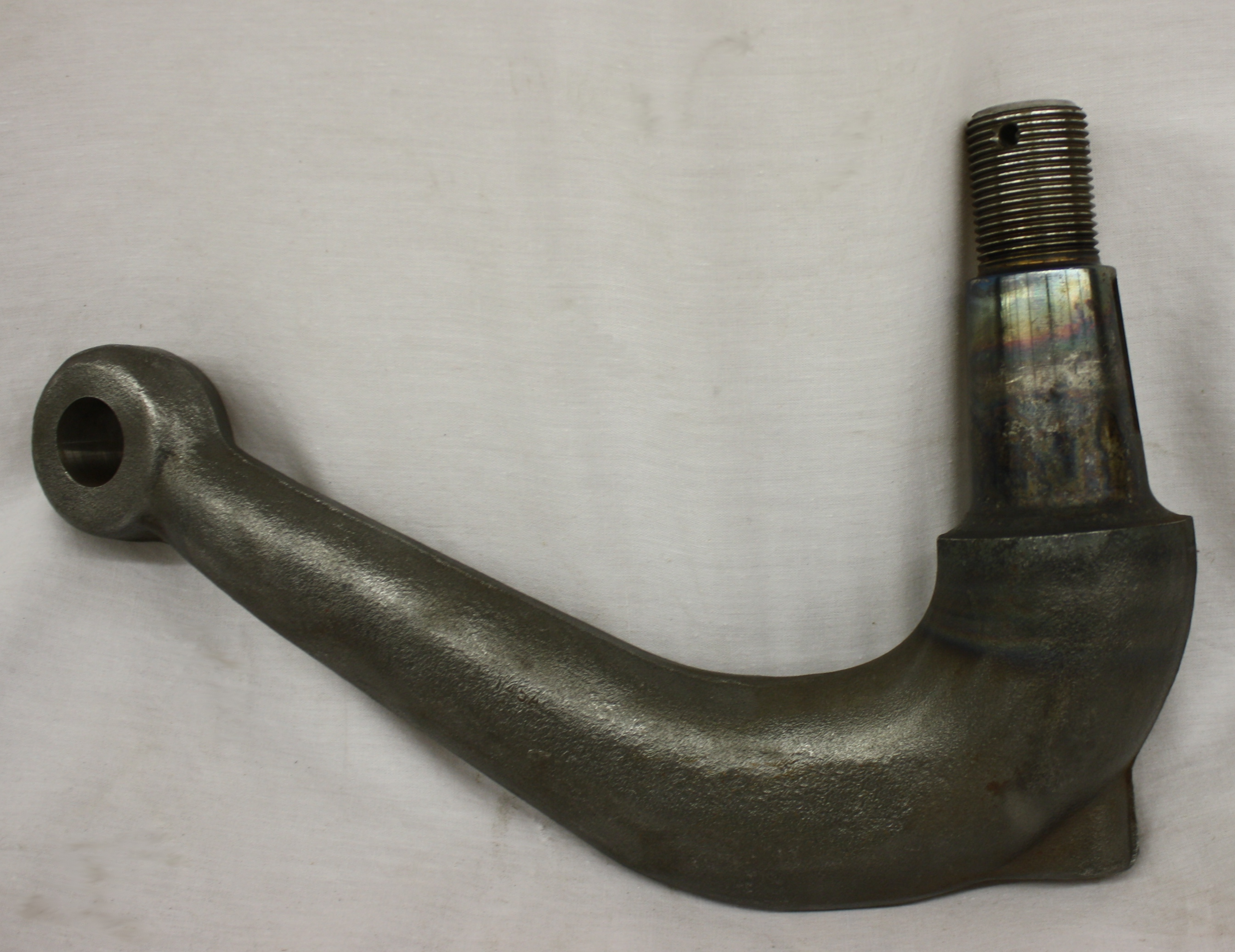 An Idler Arm for a Navistar Heavy Truck.